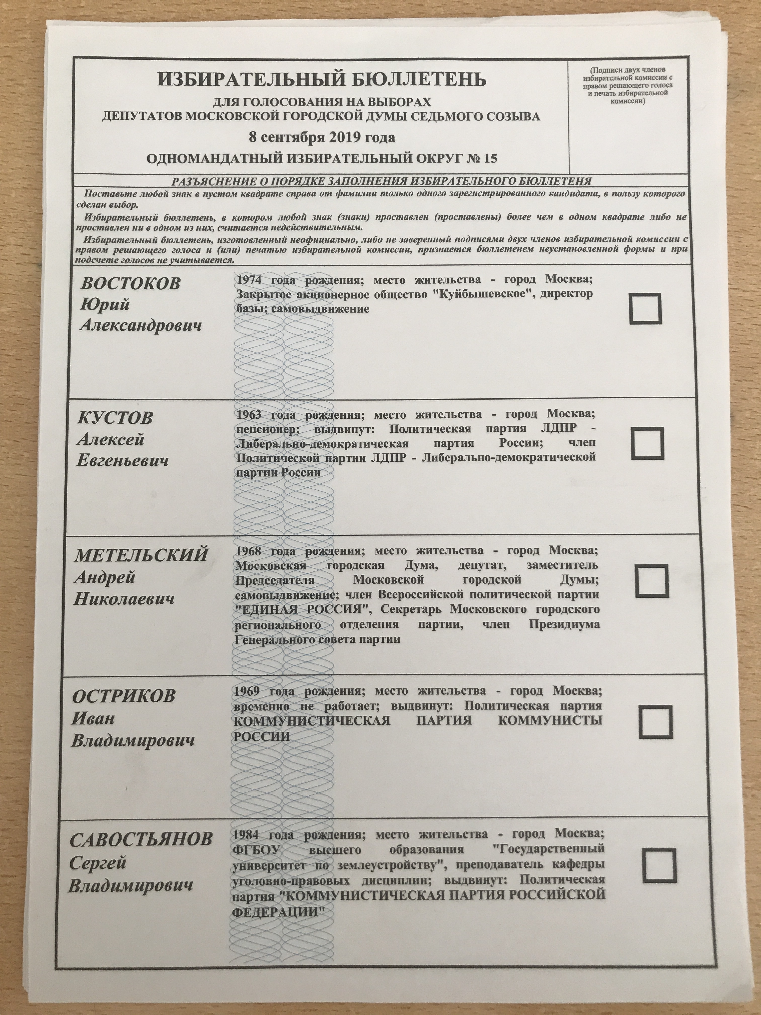 Single-member constituency No. 15 at the election of deputies to the Moscow City Duma of the 7th convocation